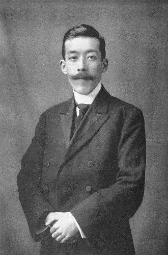 Chikataka Ogyu